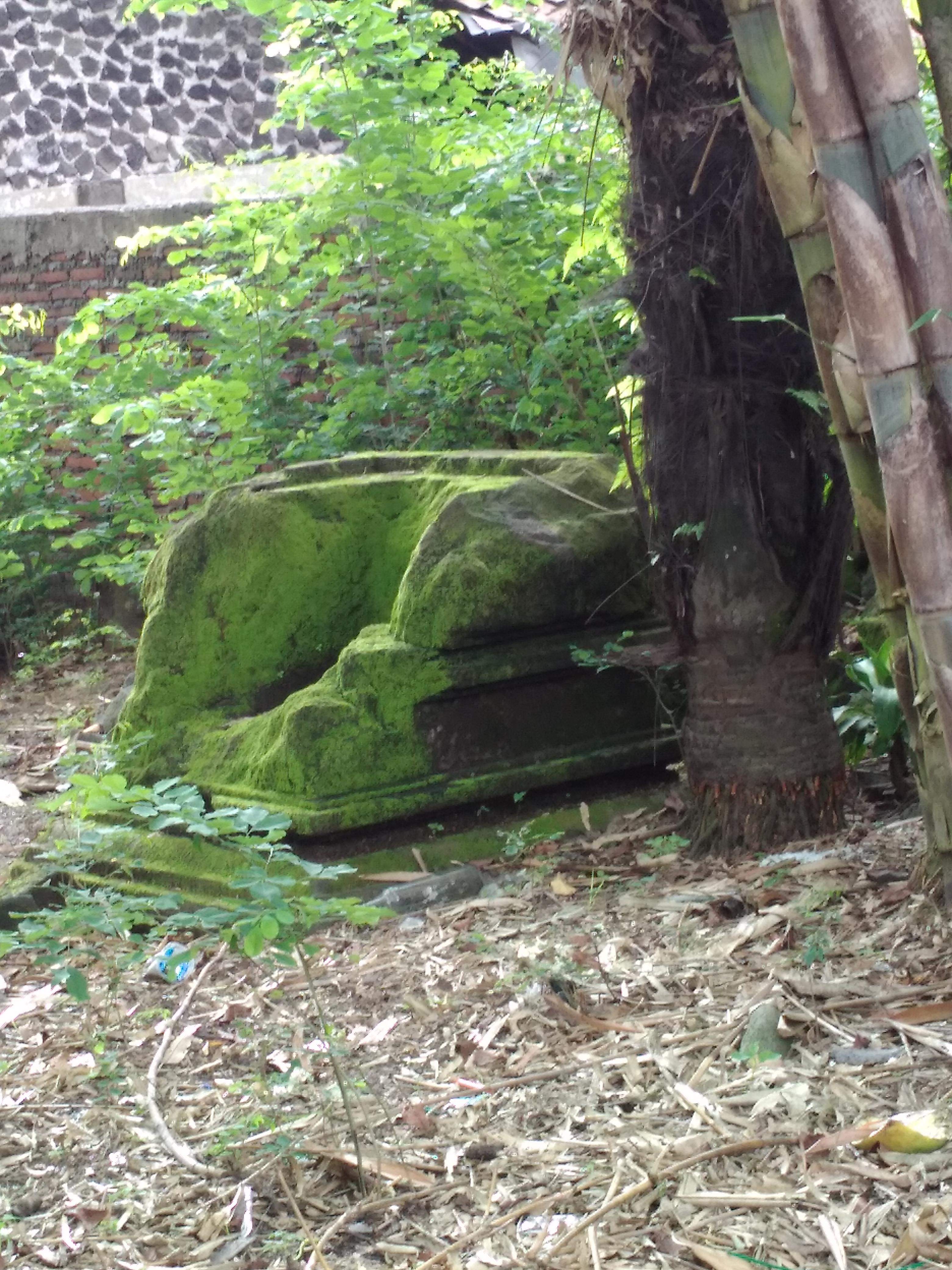 Yoni at Kadisobo Site, Turi, Sleman